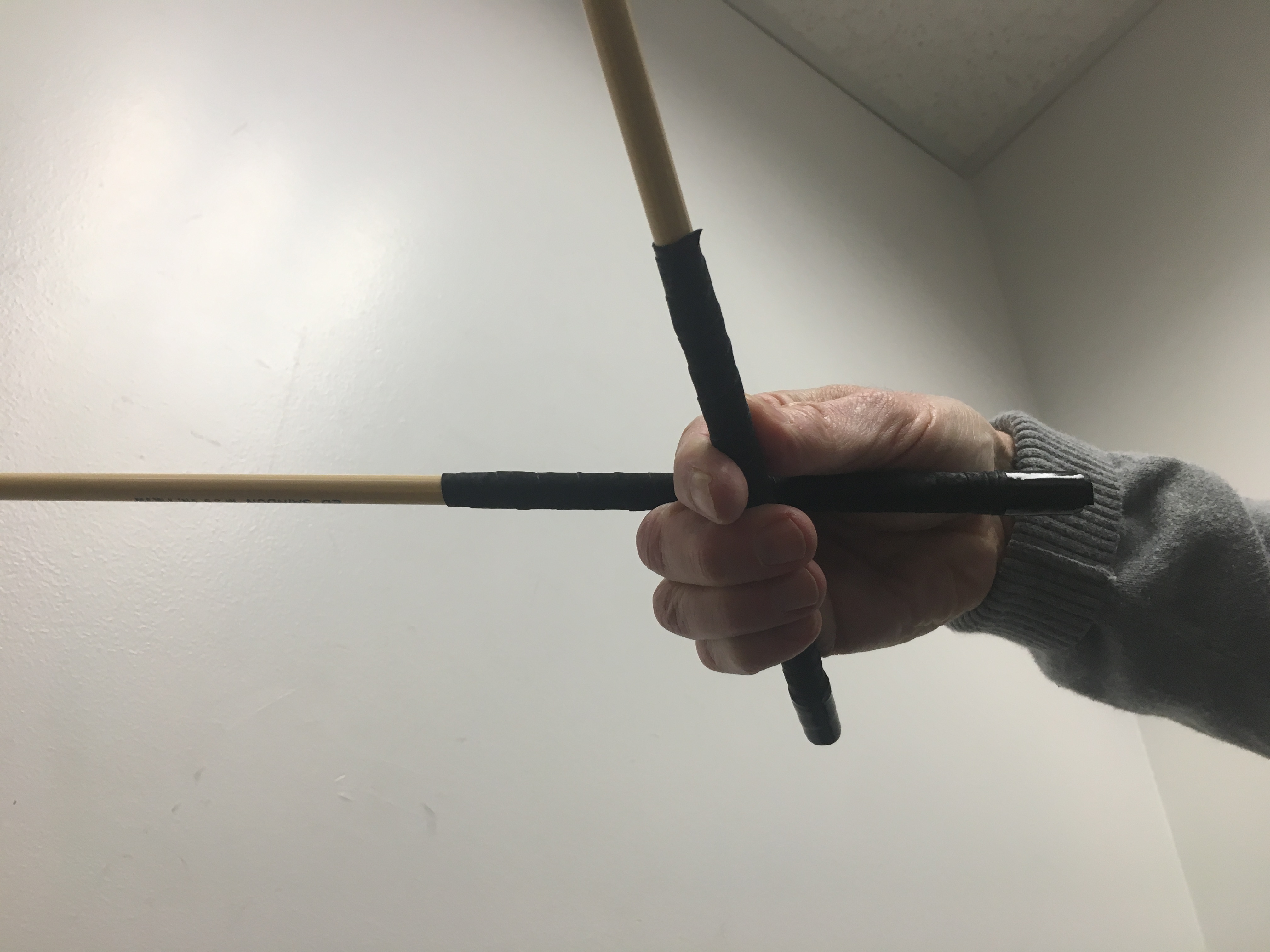 Full Spread, 2nd finger fulcrum